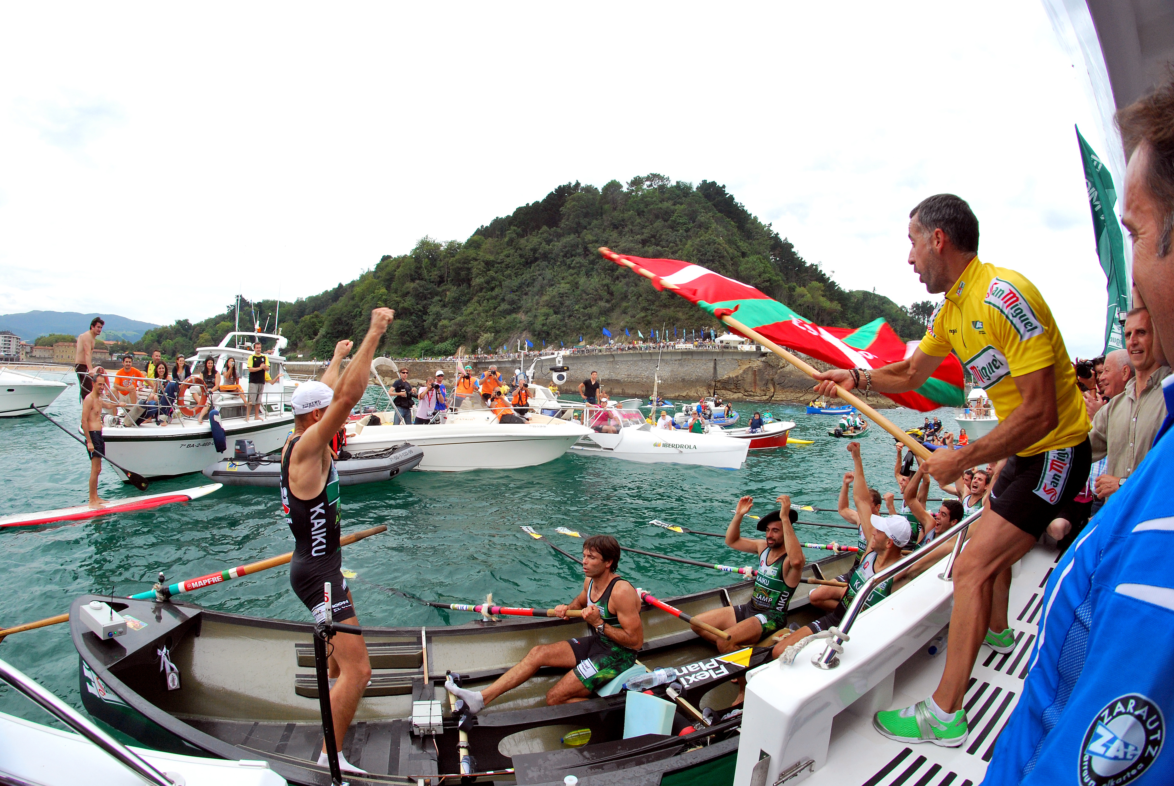 Kaiku rowing club after victory in Zarautz, waving the basque flag.